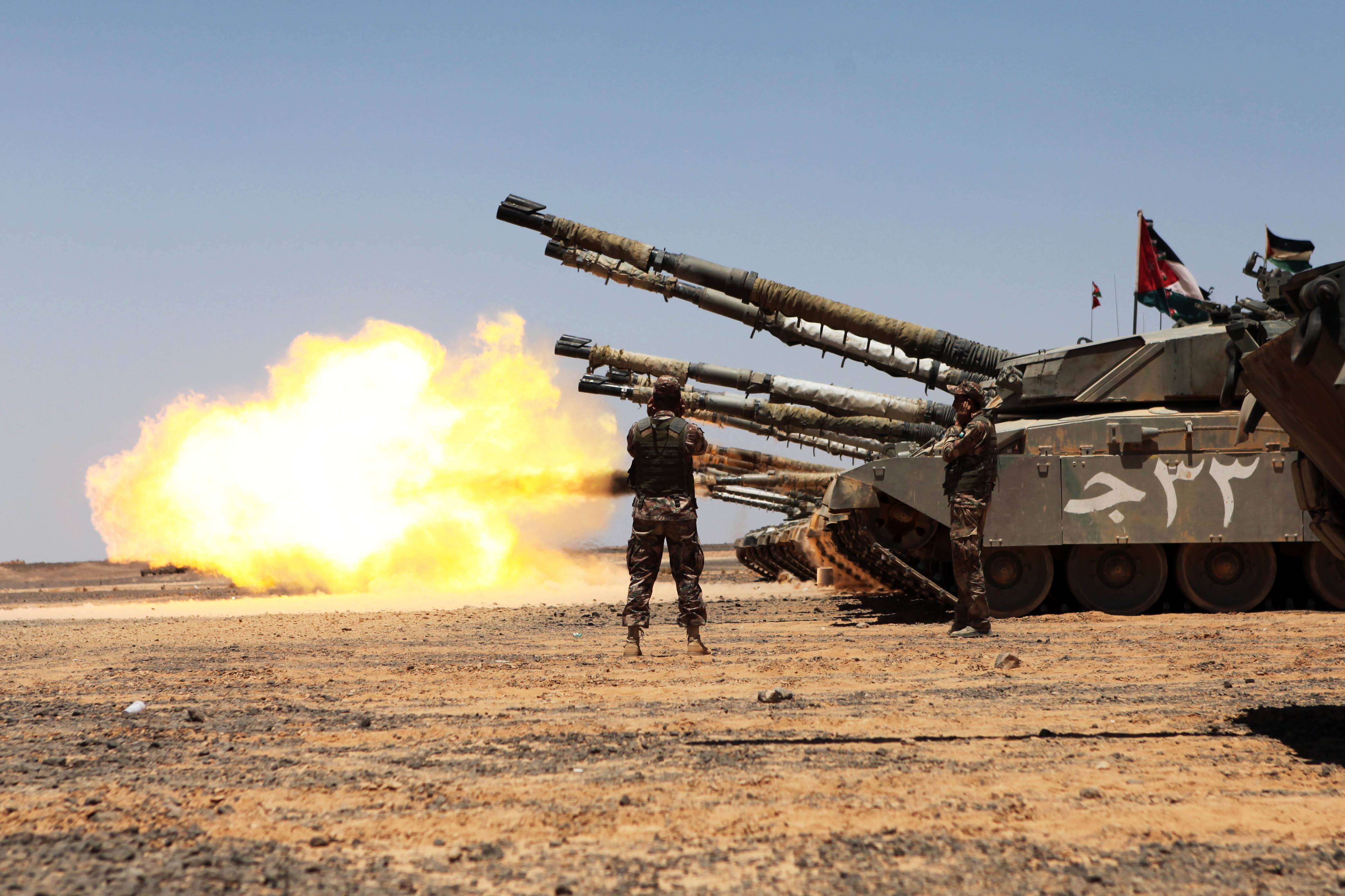 A Royal Jordanian Army Challenger 1 tank fires on a target to gain its battle-sight-zero here, May 7, 2012, during bilateral tank training with the 24th Marine Expeditionary Unit as part of Exercise Eager Lion 12. More than 1,000 Marines and Sailors from the 24th MEU are scheduled to participate in various events throughout Jordan to maximize multilateral training opportunities and continue to build relationships with partners throughout the region. Eager Lion 12 is the second major exercise for the 24th MEU and Iwo Jima Amphibious Ready Group after deploying in March to serve as a forward-deployed crisis-response force.